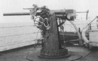 Vickers QF 3-pdr gun on HA mounting on Monitor HMS Sir John Moore.